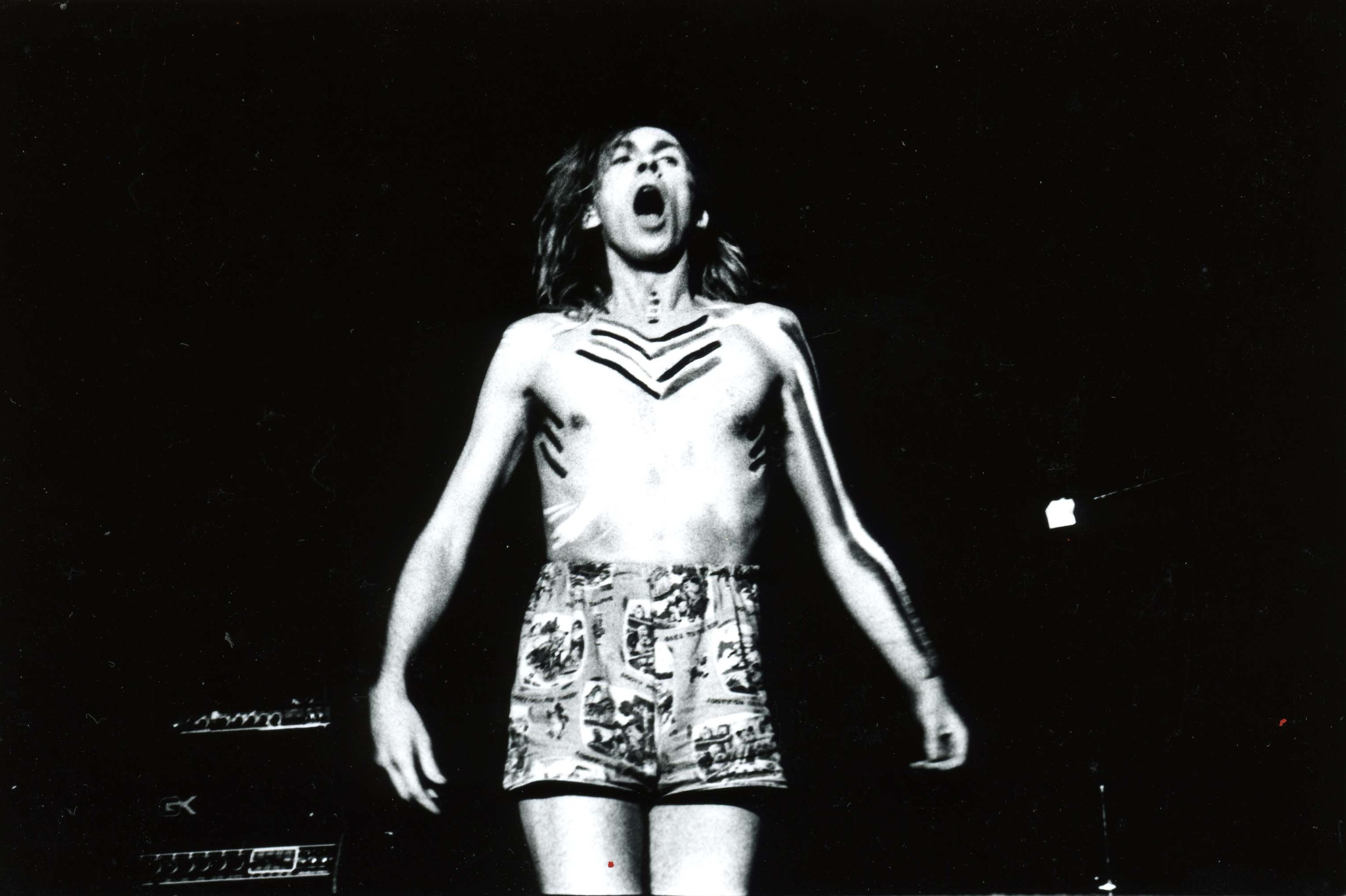 Julian Cope performing on stage